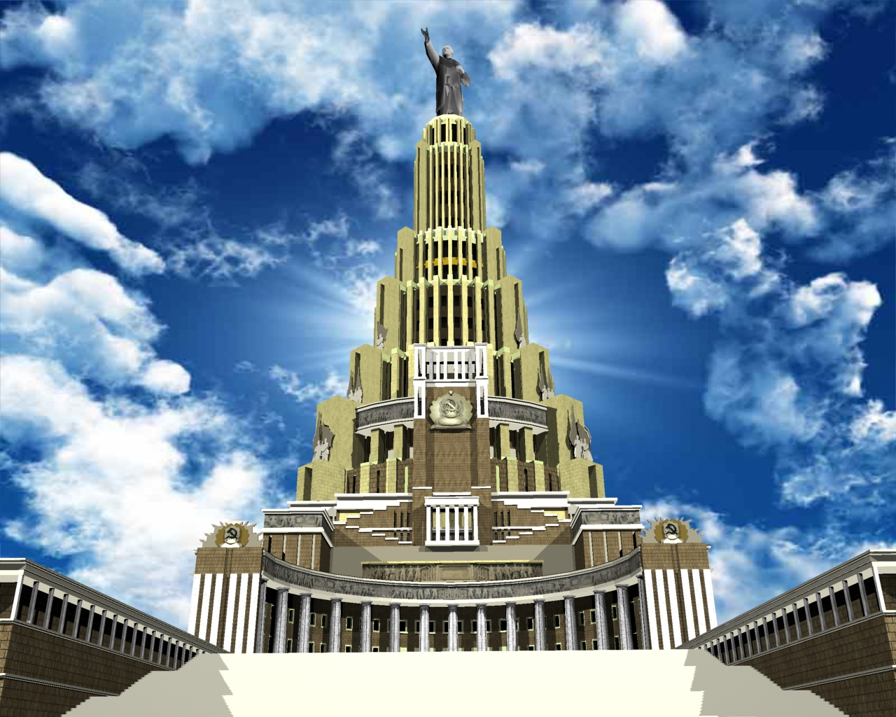 Palace Of Soviets the Soviet Union, (done in 3D Max)